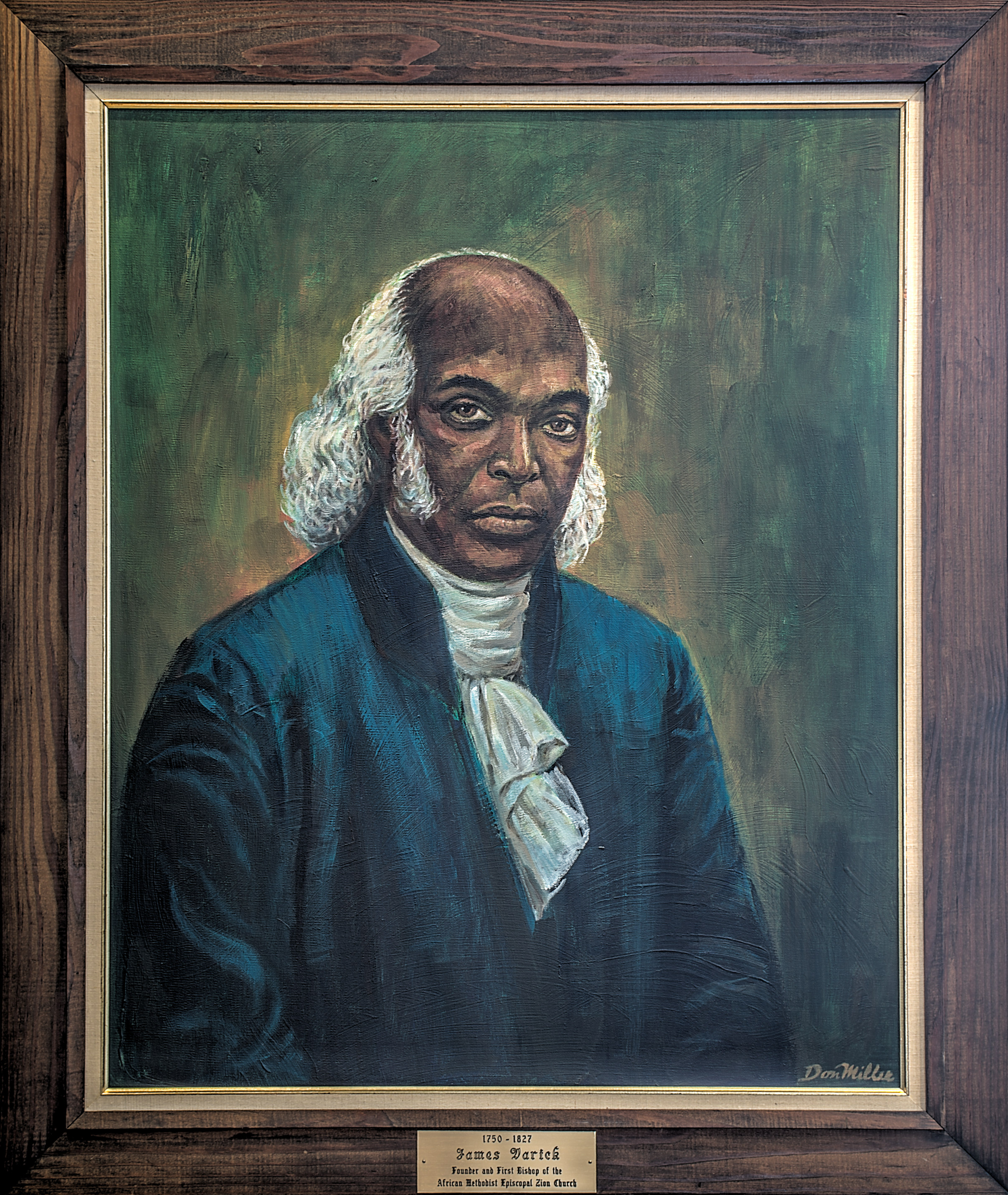 James Varick (1750 - 1827). Founder and First Bishop of the African Methodist Episcopal Zion Church